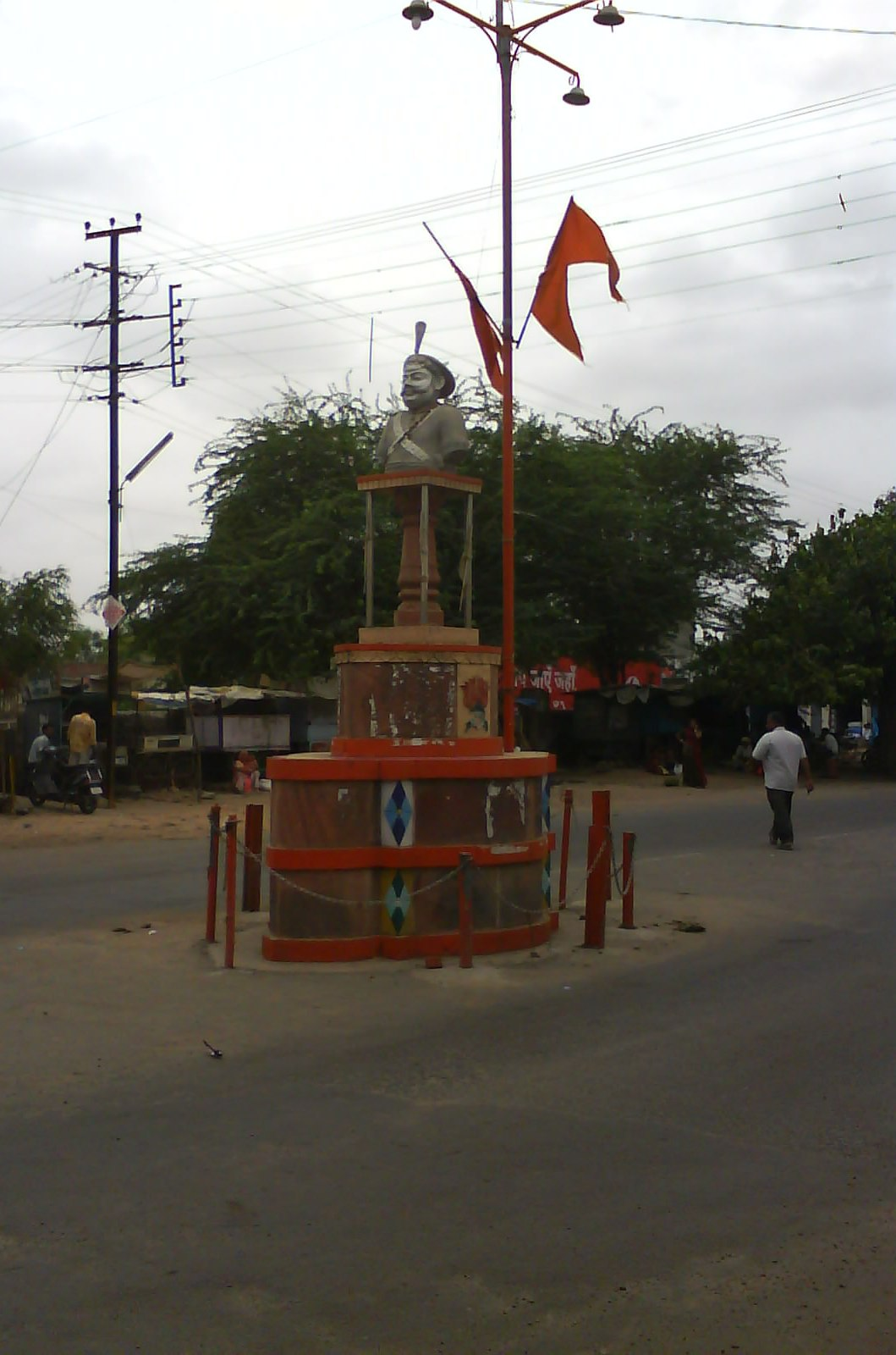 Prithviraj Chauhan Chauk at Bali on Sadri Road